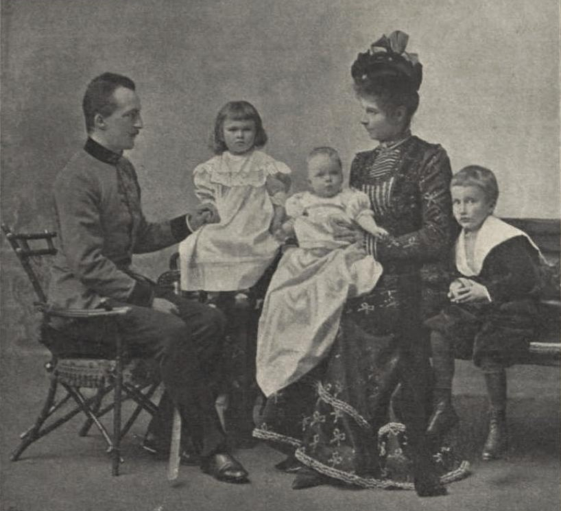 Archduke Joseph August of Austria, Princess Auguste of Bavaria (1875–1964) and their childrens